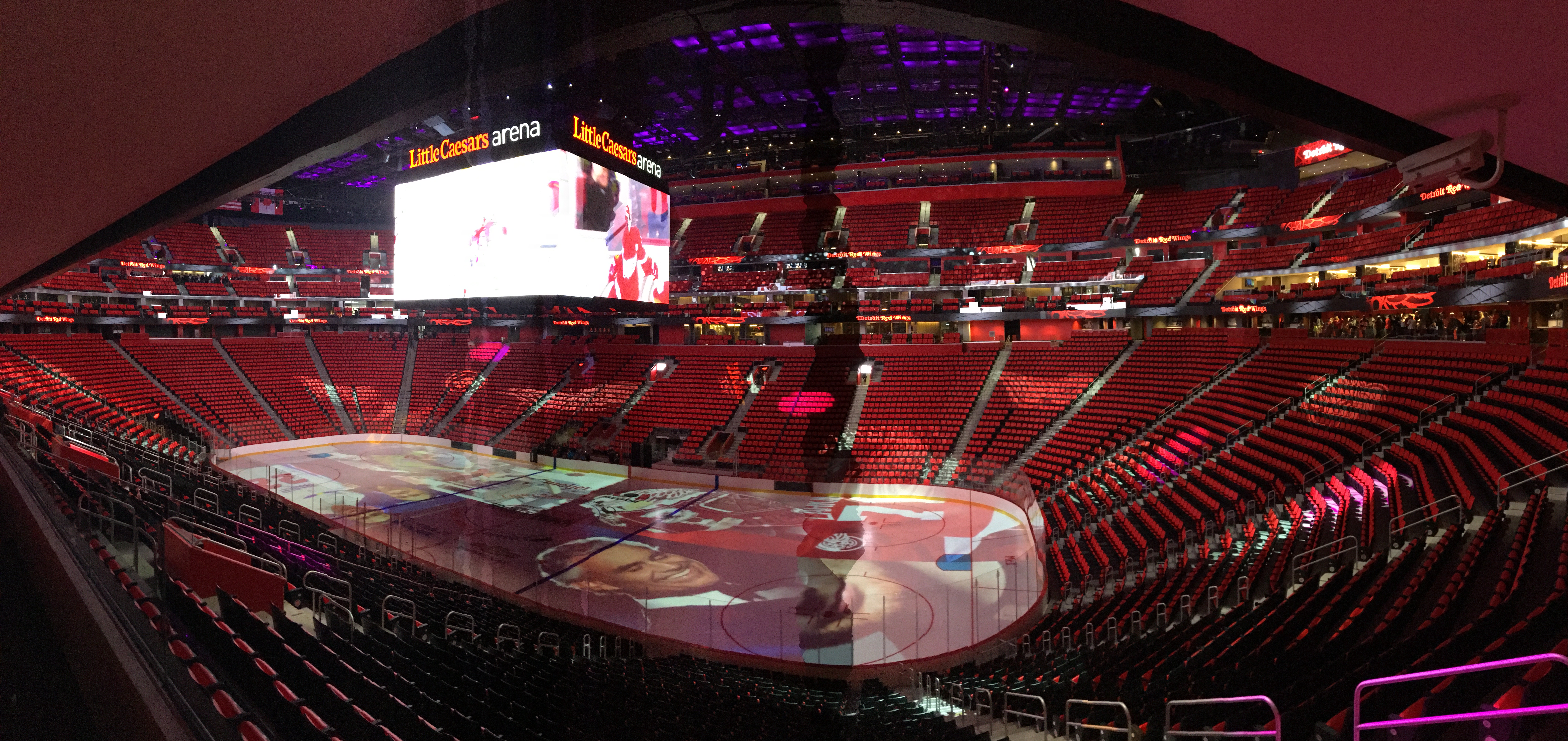 This is an inside look of the Little Caesars Arena during the first day of opening week